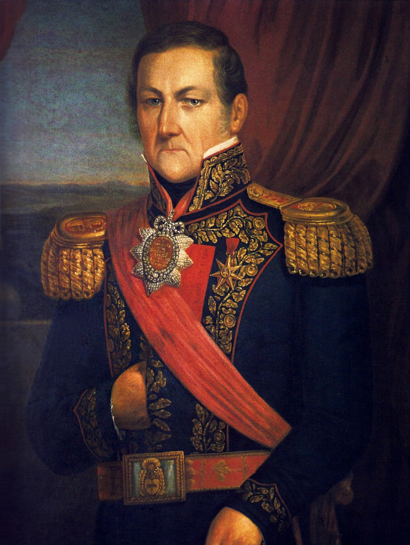 Juan Manuel de Rosas, ruler of Argentina. According to historian Juan A. Pradère, it was painted by Fernando García del Molino (1813–1899). Source: Soares de Sousa (1955), pp.84–85